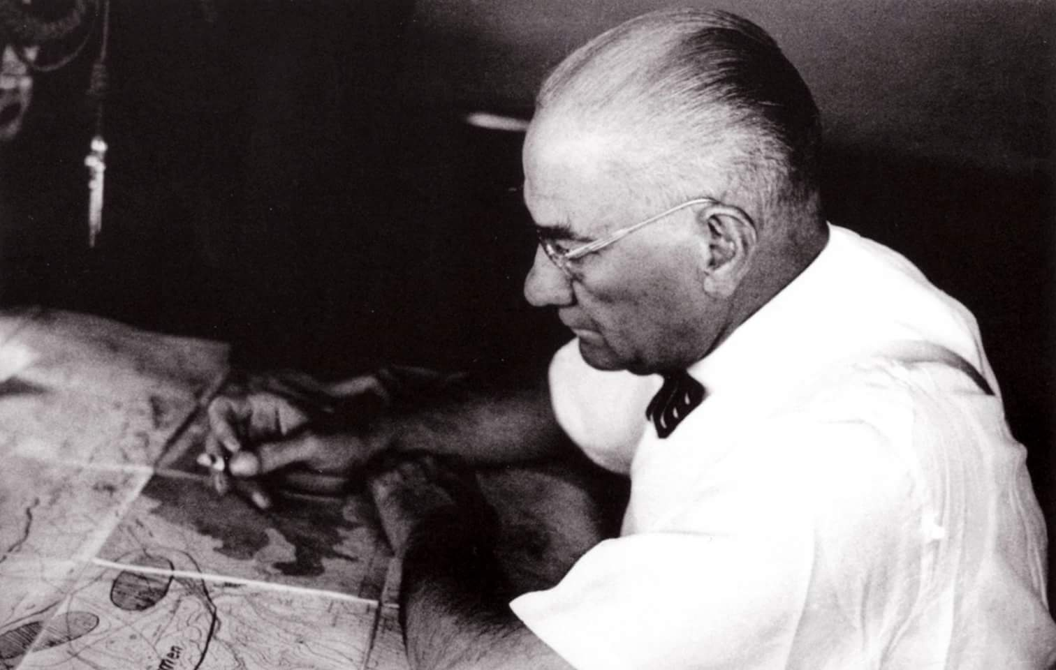 Kemal Atatürk (or alternatively written as Kamâl Atatürk, Mustafa Kemal Pasha until 1934, commonly referred to as Mustafa Kemal Atatürk; 1881 – 10 November 1938) was a Turkish field marshal, revolutionary statesman, author, and the founding father of the Republic of Turkey, serving as its first President from 1923 until his death in 1938. He undertook sweeping progressive reforms, which modernized Turkey into a secular, industrial nation. Ideologically a secularist and nationalist, his policies and theories became known as Kemalism. Due to his military and political accomplishments, Atatürk is regarded as one of the most important political leaders of the 20th century.